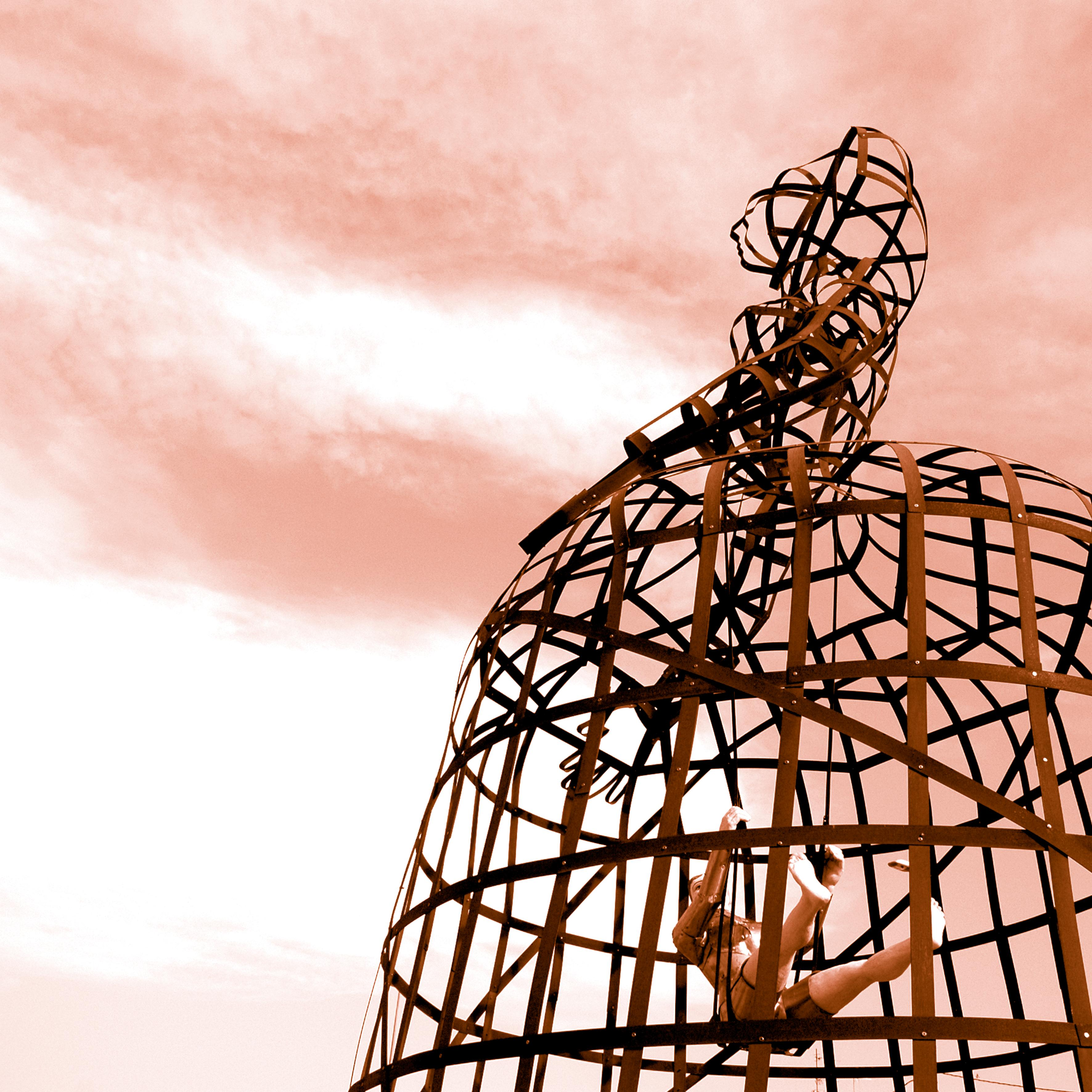 La Menina